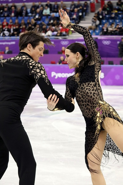 Tessa Virtue and Scott Moir at the 2018 Winter Olympic Games in PyeongChang